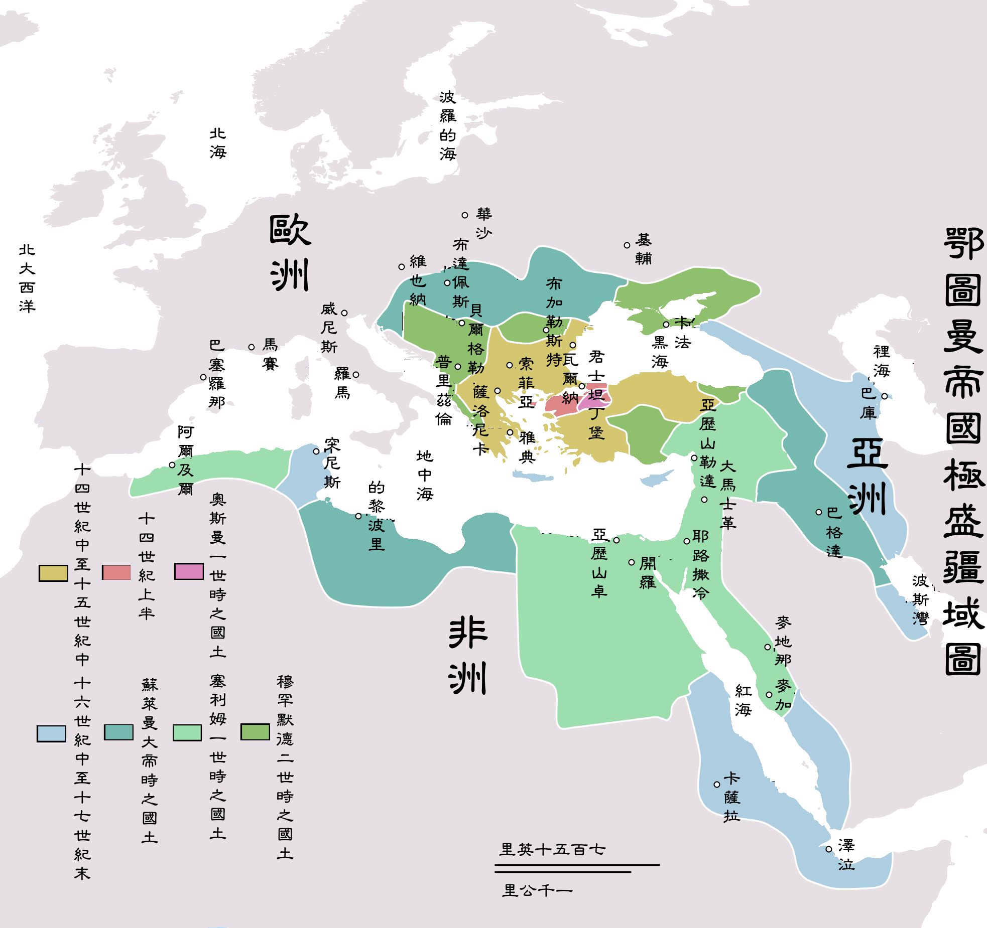 Map depicting the Ottoman Empire at its greatest extent, in 1683.